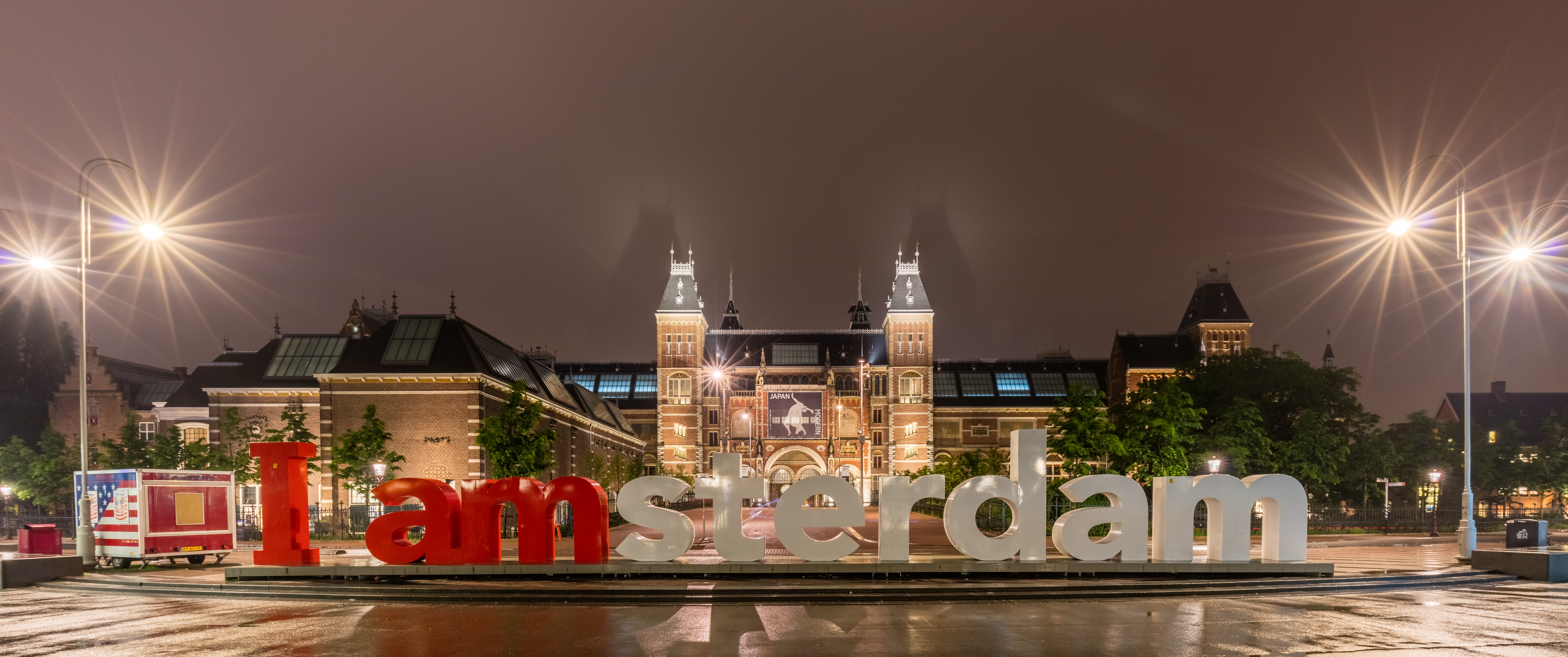 I Amsterdam, Amsterdam, Netherlands